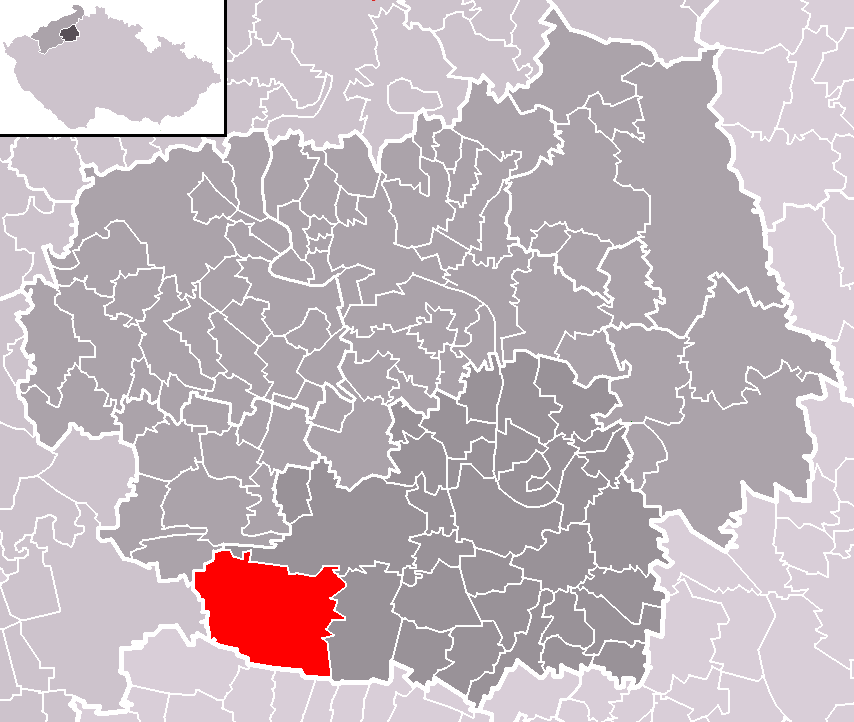 Location of Mšené-lázně municipality within Litoměřice District and administrative area of Roudnice nad Labem as a Municipality with Extended Competence.